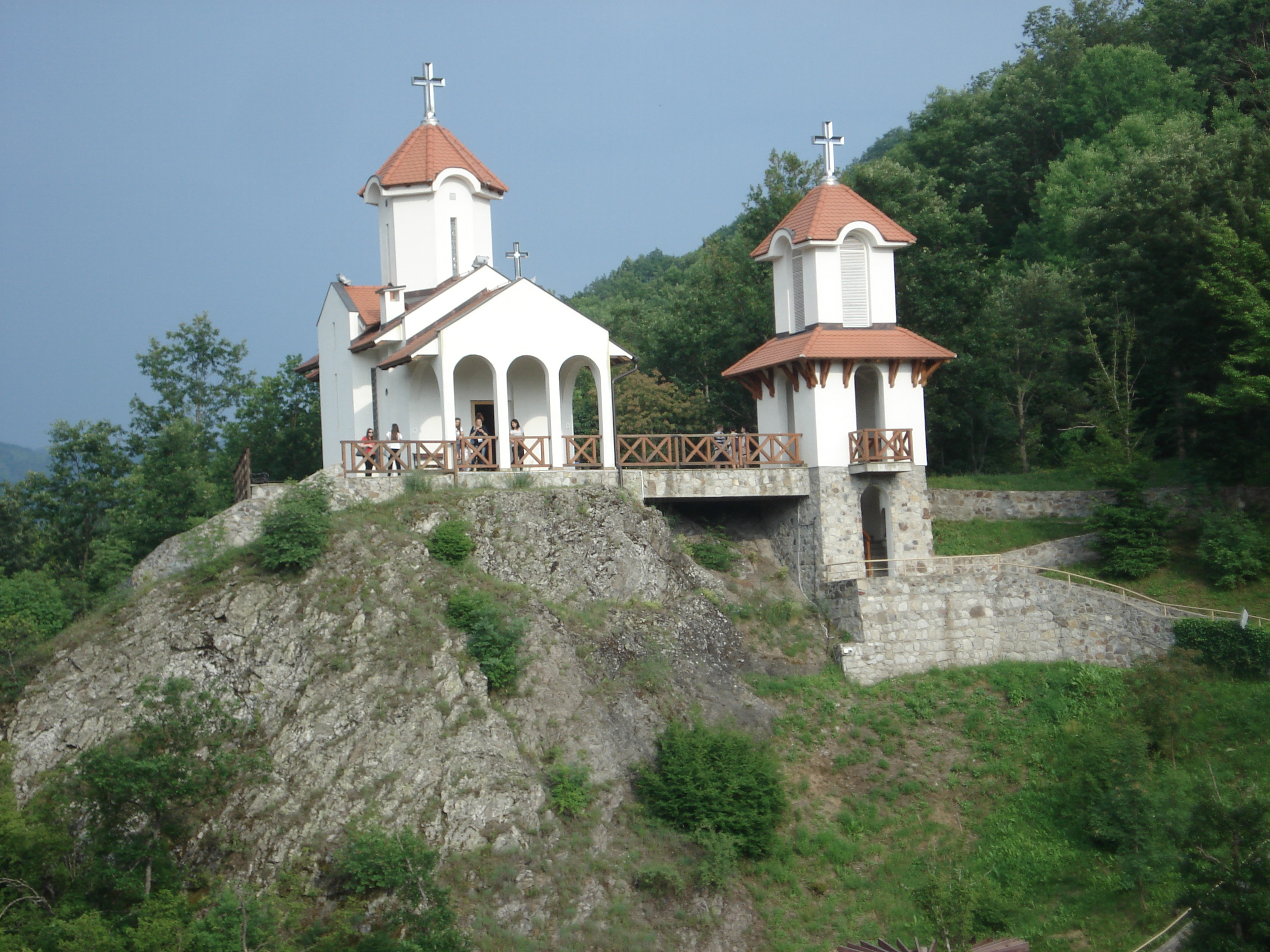 Crkva Preobrazenja u Prolom Banji